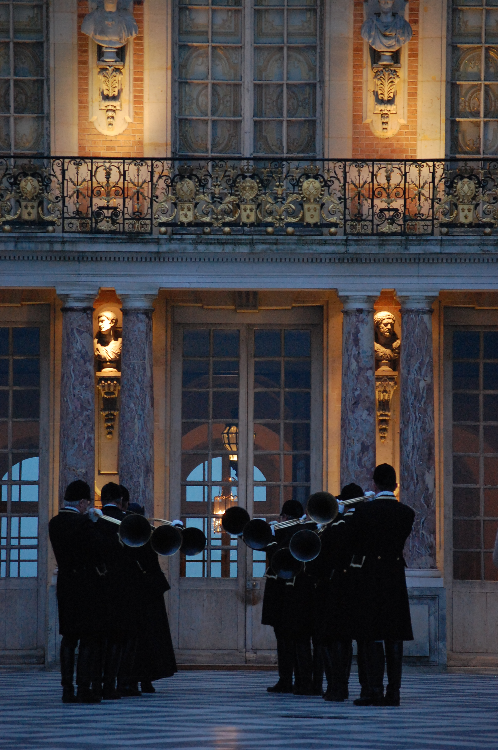 Hunting horns band in the cour de marbre of the palace of Versailles